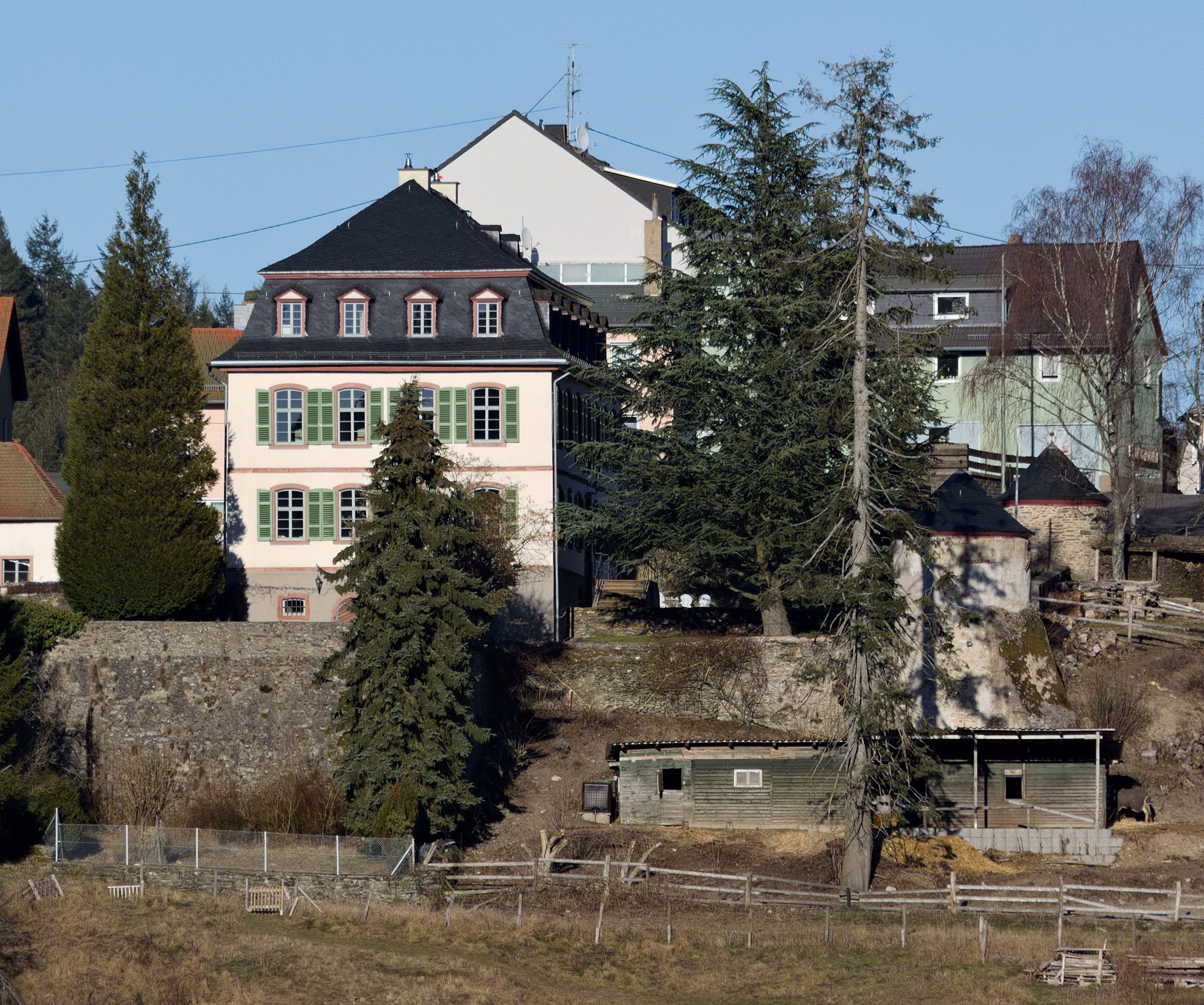 The Bassenheim Palais with enclosing wall and pavillons at Oberreifenberg, Taunus, Germany. View from south-western direction.